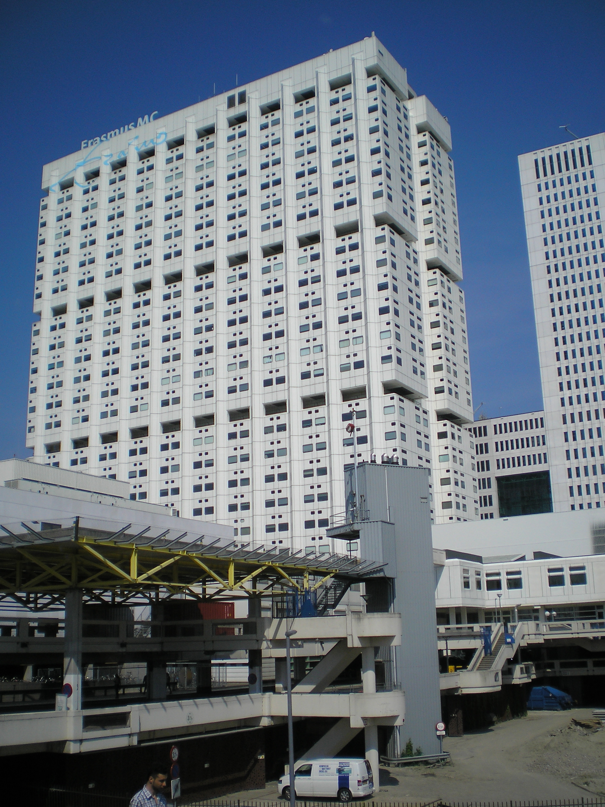 Erasmus Medical Center to the 's Gravendijkwal 230, Rotterdam in the Netherlands. Parking garage of the Erasmus Medical Center (Faculty of Medicine and Health Sciences) to the 's Gravendijkwal 230 in Rotterdam, The Netherlands.